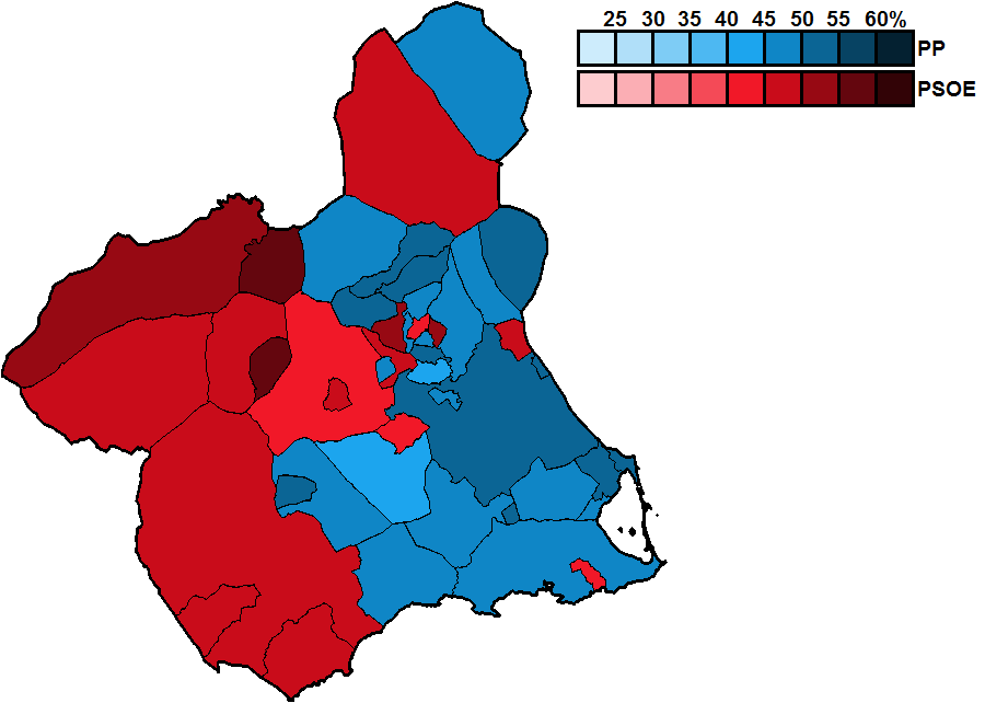 Most-voted party in Murcia municipalities, showing vote share obtained, in the Spanish general election, 1993.